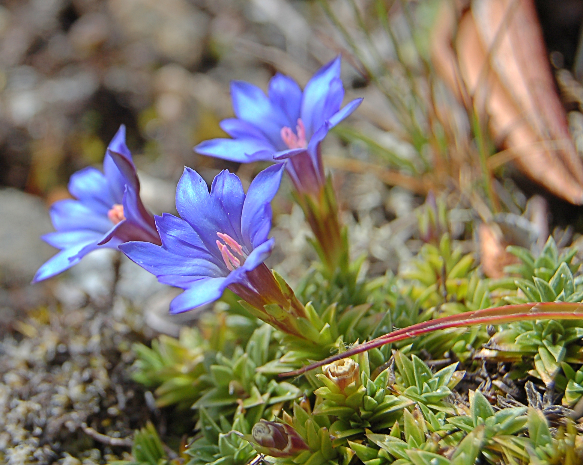 Gentiana arisanensis. Photo taken in Jade Mountains, 2011.